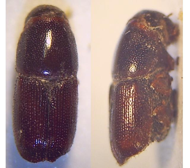 Scolytus_kirschi, female imago.